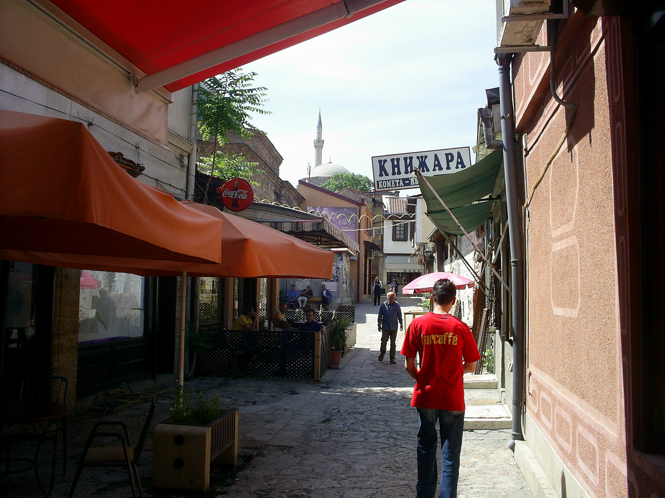 Old street in Skopje.